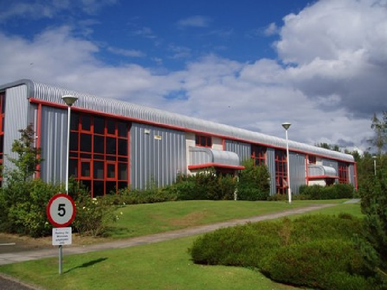 Micronas, Southfield, Glenrothes, source Michael Westwater